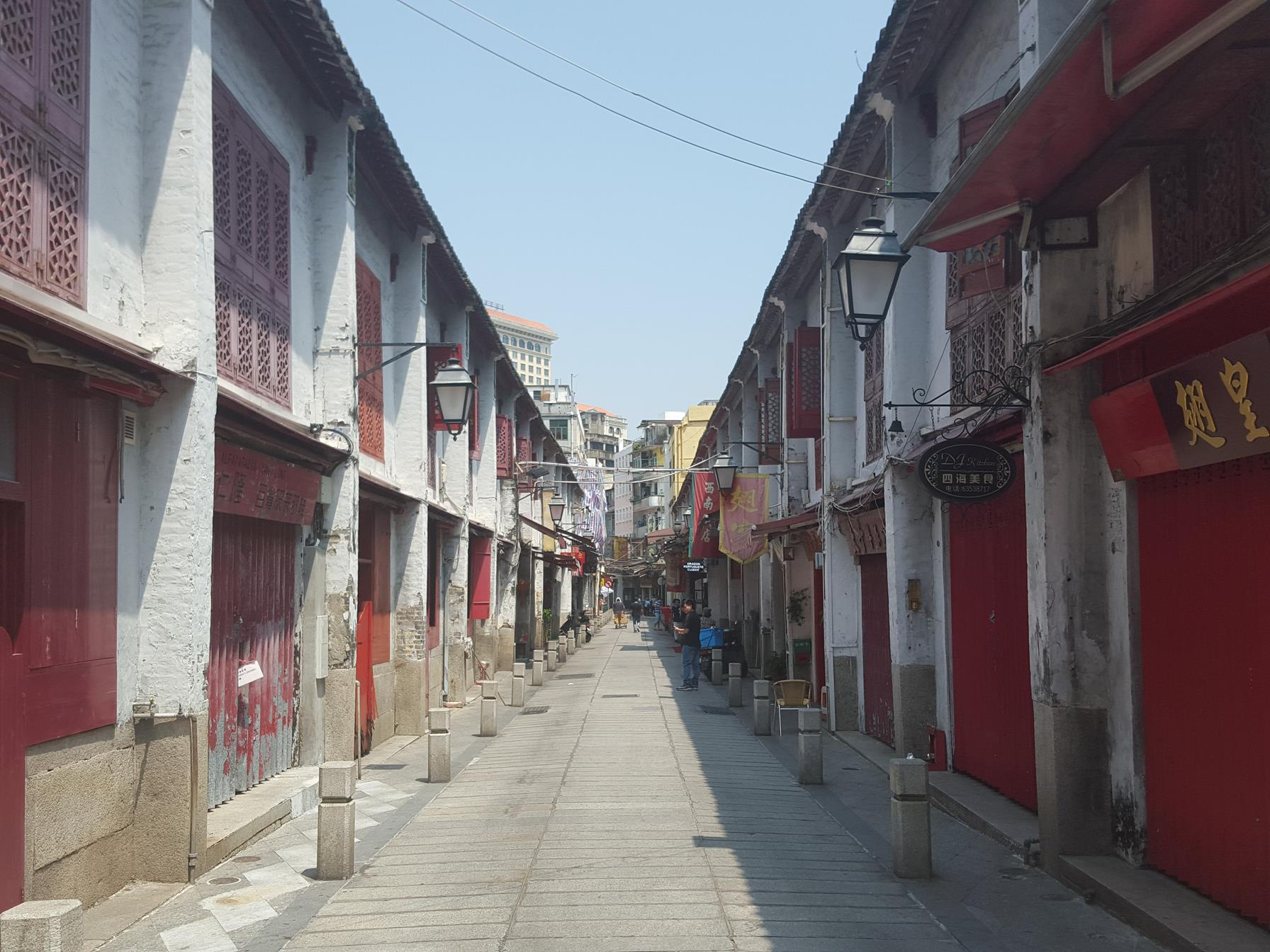 Rua da Felicidade